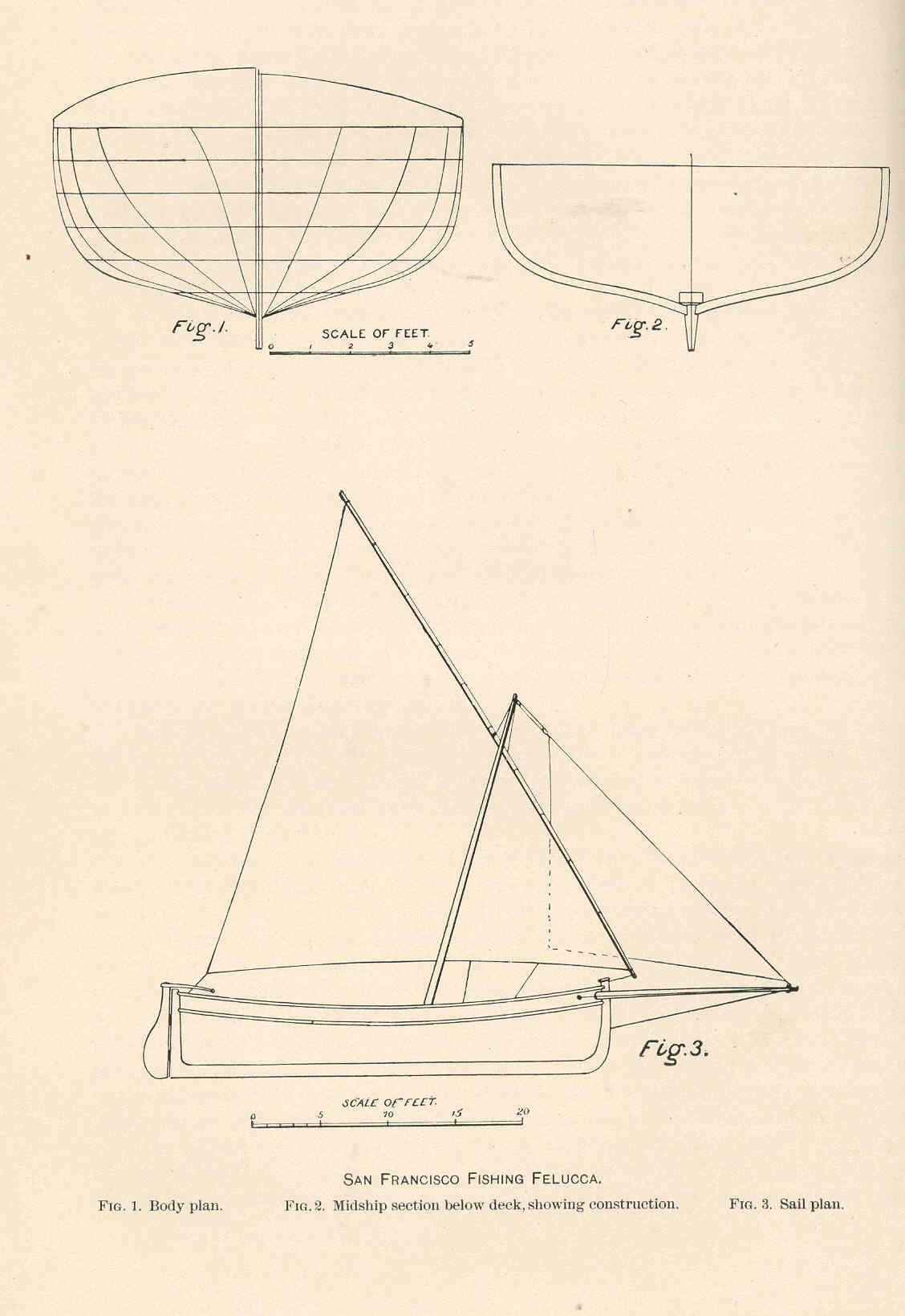 San Francisco Fishing Felucca Subject: Boats and boating, Fishing boats Tag: Vessels